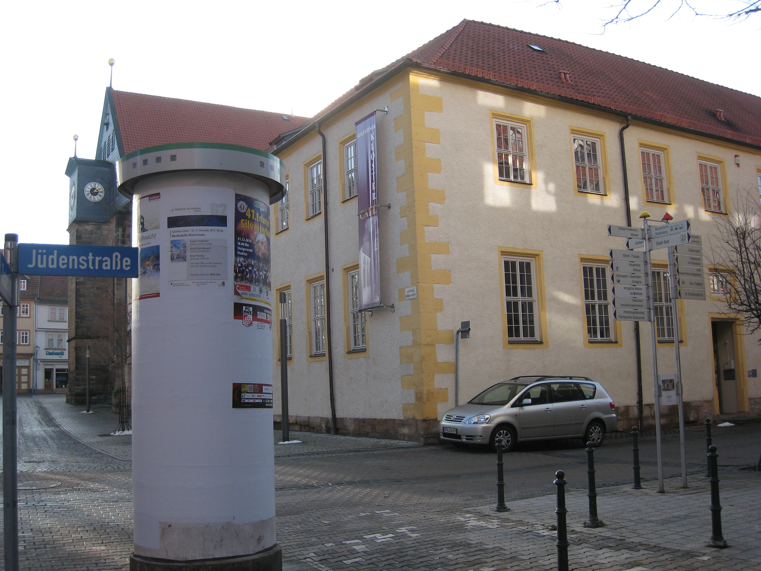 Jüdengasse Gotha with Augustinerkloster